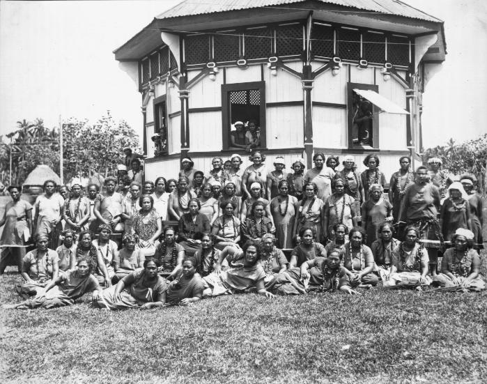 Women of the Mau in front of the octagonal Mau office in Vaimoso near Apia, ca 1930. Gagana Samoa: Fafine o le Mau i luma o le ofisa a le Mau i Vaimoso, i Apia. (le ata fa'apea na pu'e i le tausaga 1930)